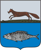 Bugulma (Tatarstan), coat of arms (1782)